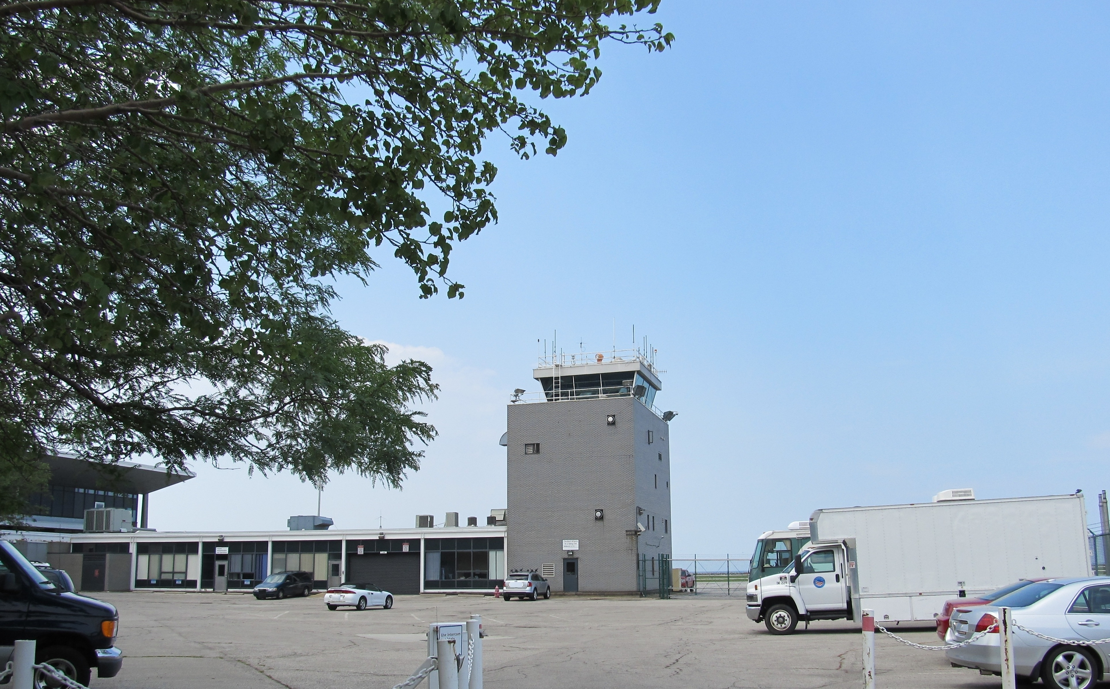 Burke Lakefronts Control Tower and Employee Parking